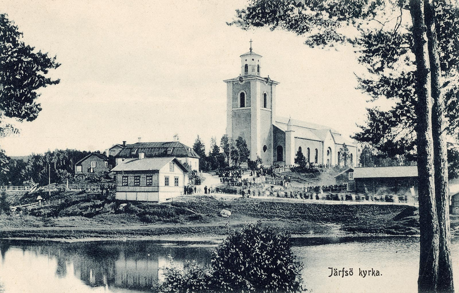 Järvsö Church, Hälsingland, Sweden about 1910